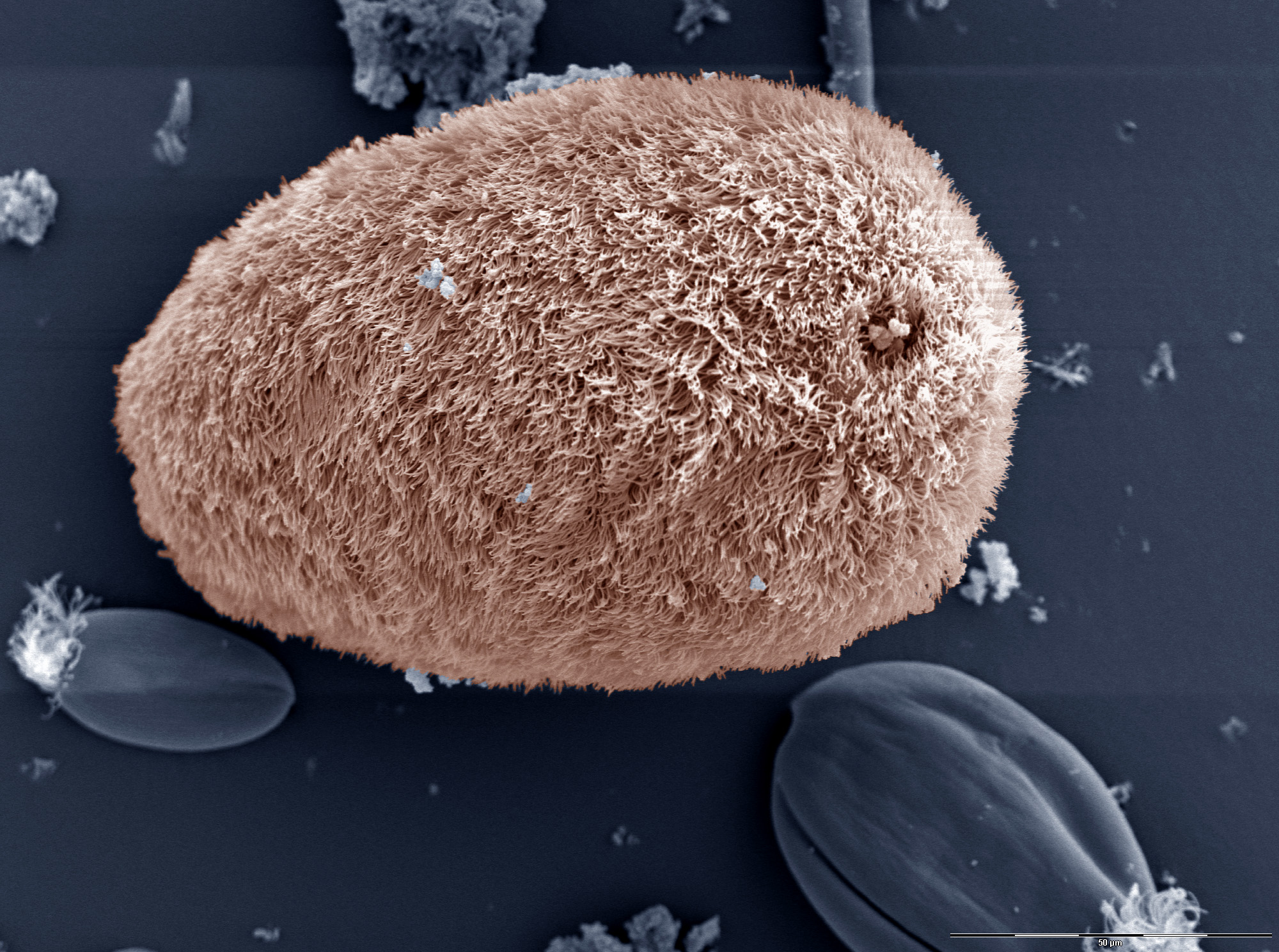 Isotricha intestinalis, a protozoan distinguished by its mouth position. This protozoan can be up to 200 micrometers long, making it the largest in the rumen of sheep.